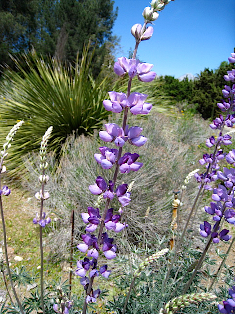 Lupinus longifolius - at the Rancho Santa Ana Botanic Garden in Claremont, Southern California, U.S. Identified by garden i.d. sign.